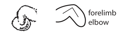 Standard Event System character depiction